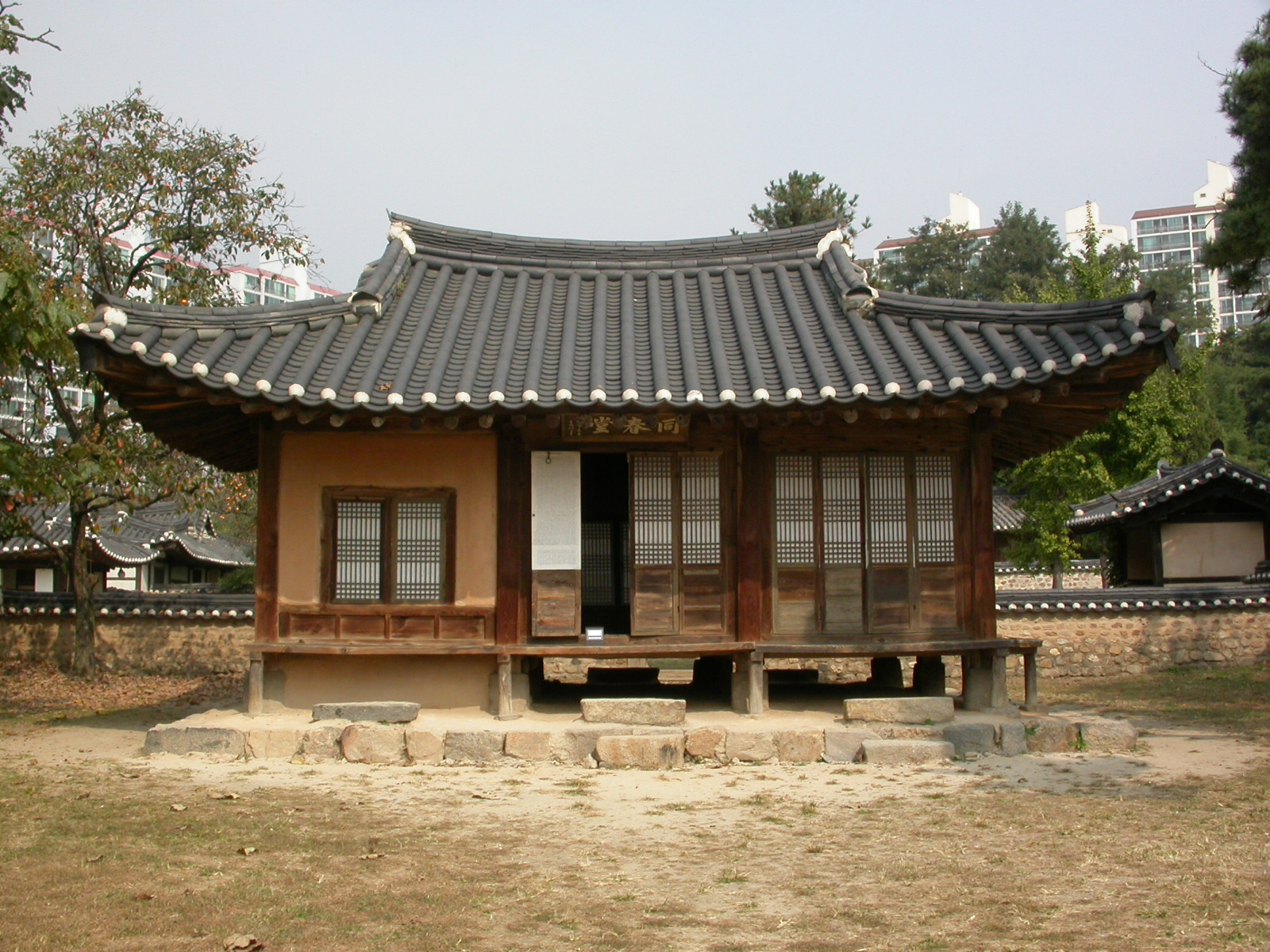 Daejeon Hoedeok Dongchundang